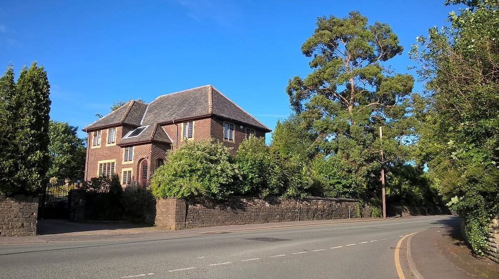 View of Rochdale Road, near The Orchards, High Crompton, in 2016.